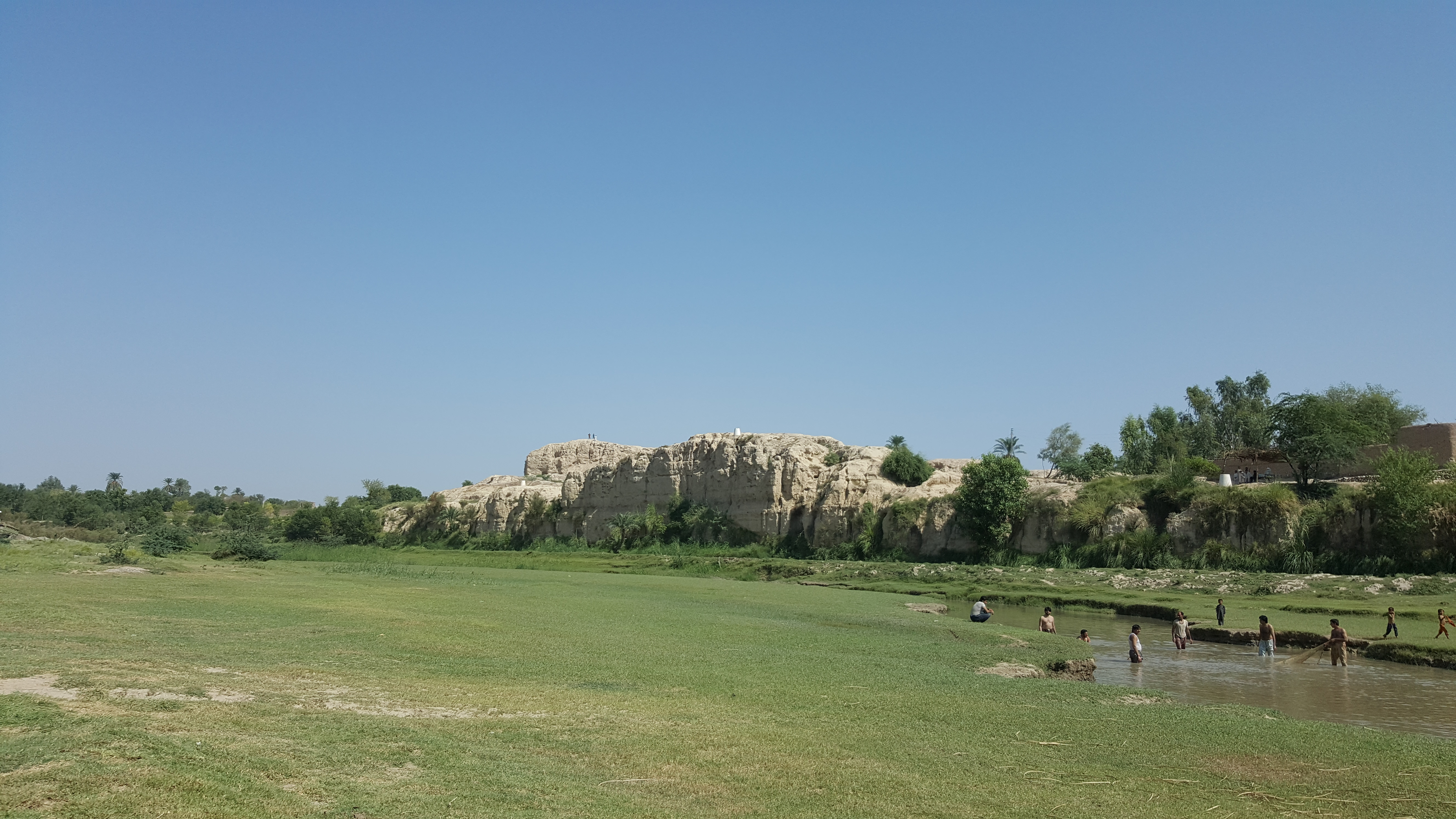 Akra (A) mound This is a photo of a monument in Pakistan identified as the KPK-2